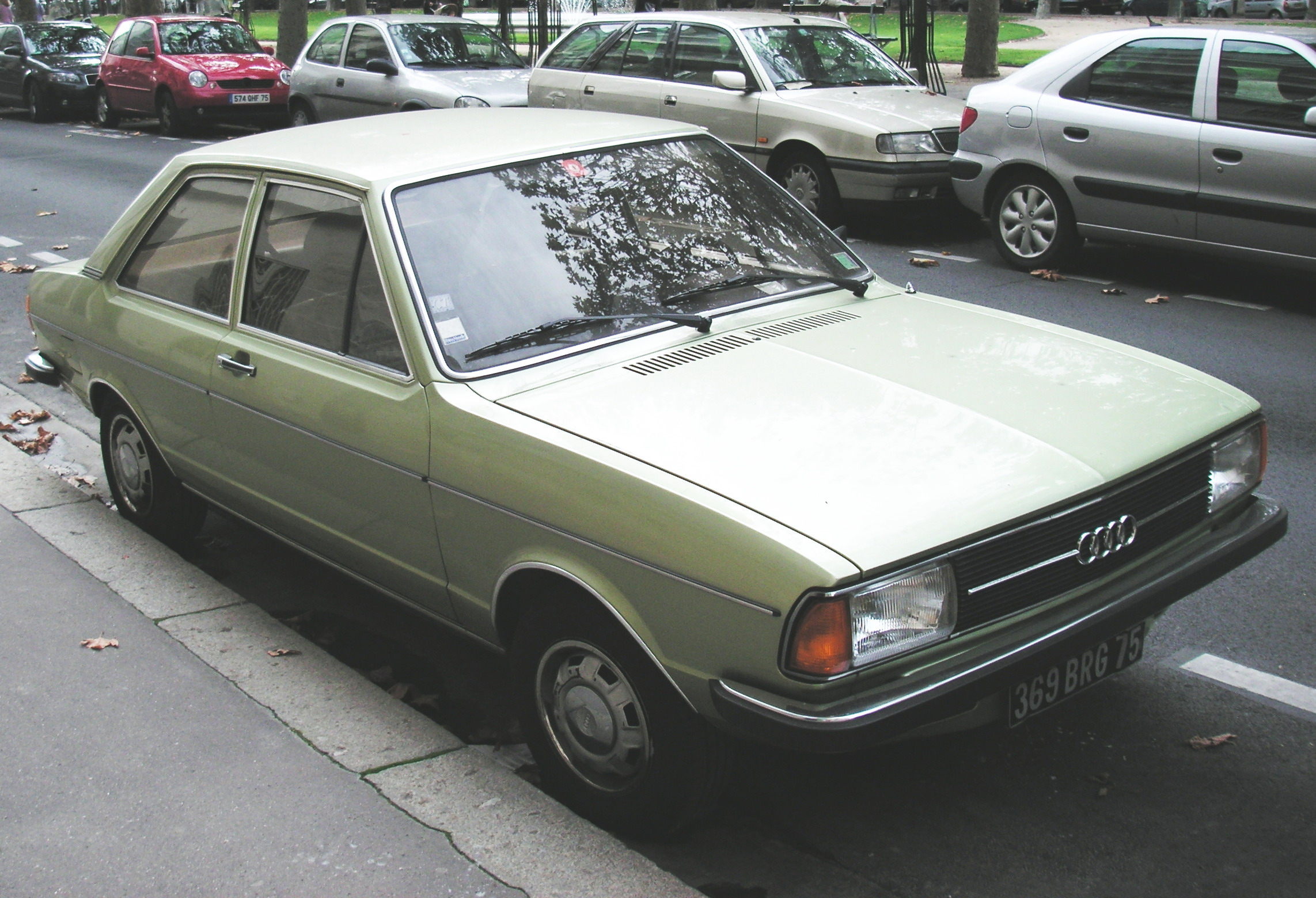 French registered Audi 80 parked at the road side. The license plate indicates that the car is registered in Paris. Two nearby cars also feature Paris license plates. (Though on the latest cropped version of the image only one of them - the VW Lupo - is still in shot. The Mini, parked a short distance behind the Audi, has now been cropped out of the frame.) The picture appears to have been taken in Paris on the overwhelming balance of probabilities. See also Audi 80 V1 restylee 3.JPG